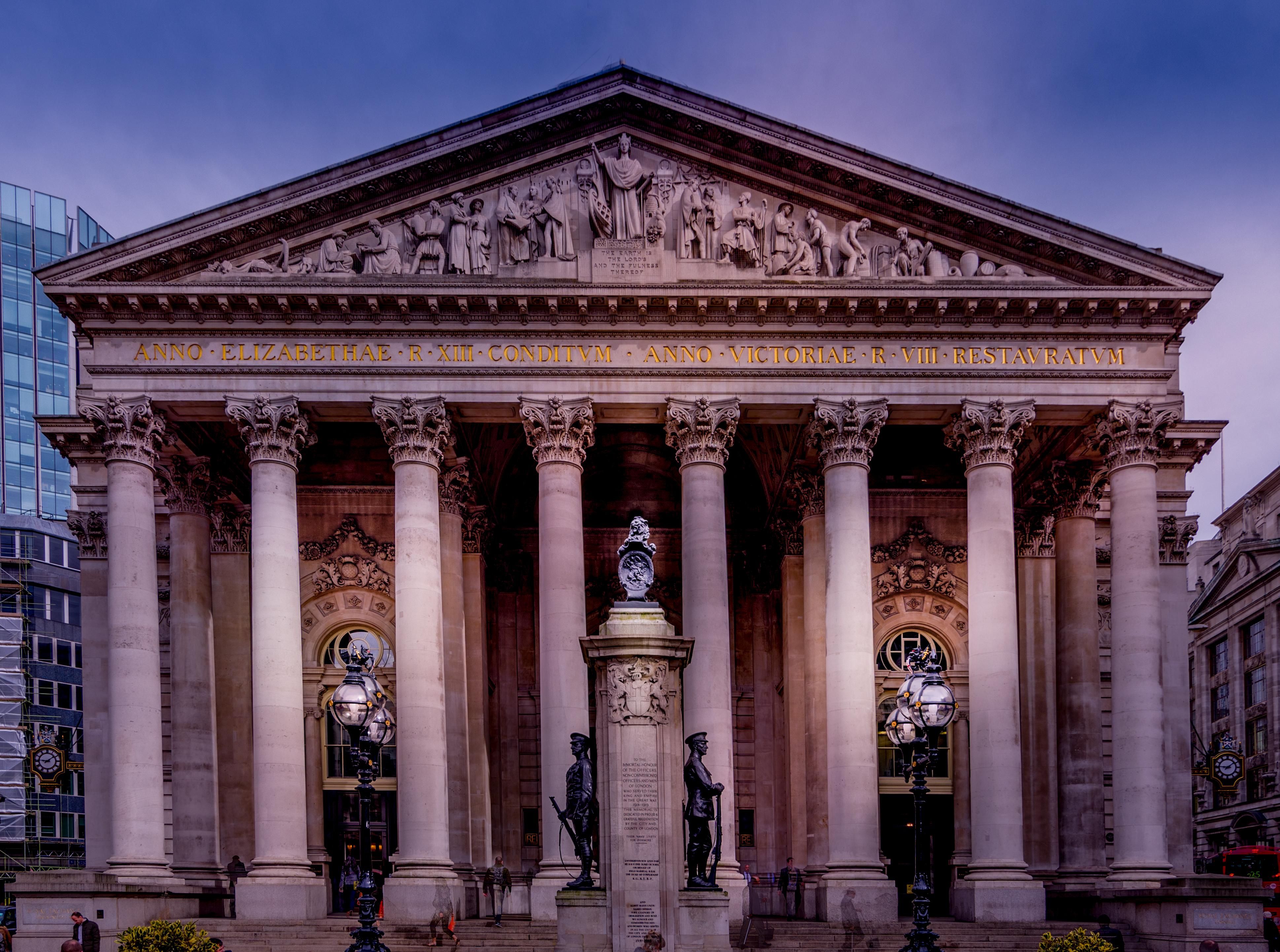 Royal Exchange, London, UK